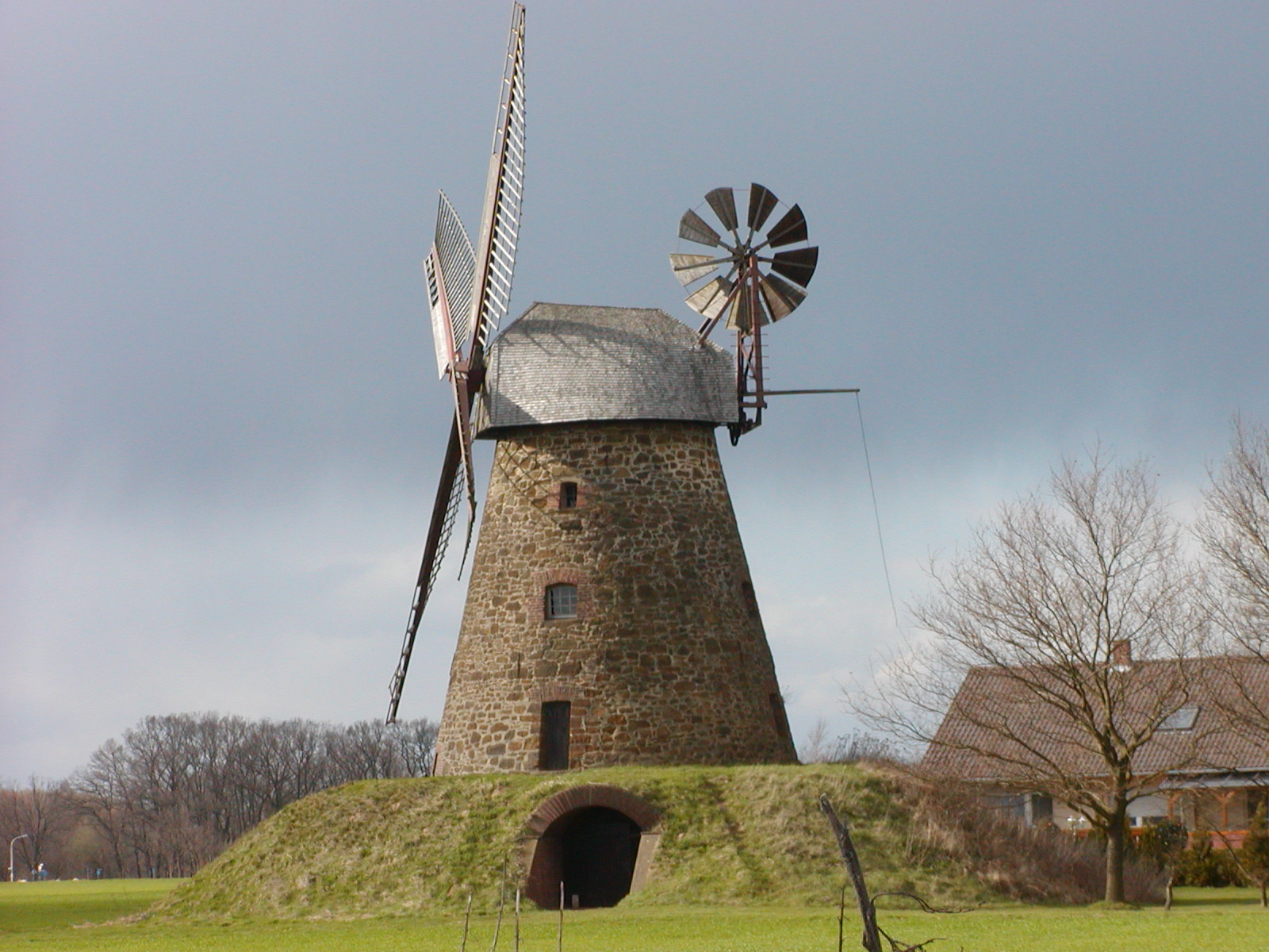 This image shows a heritage building in Germany, located in the North Rhine-Westphalian municipality Hille (no. 7).